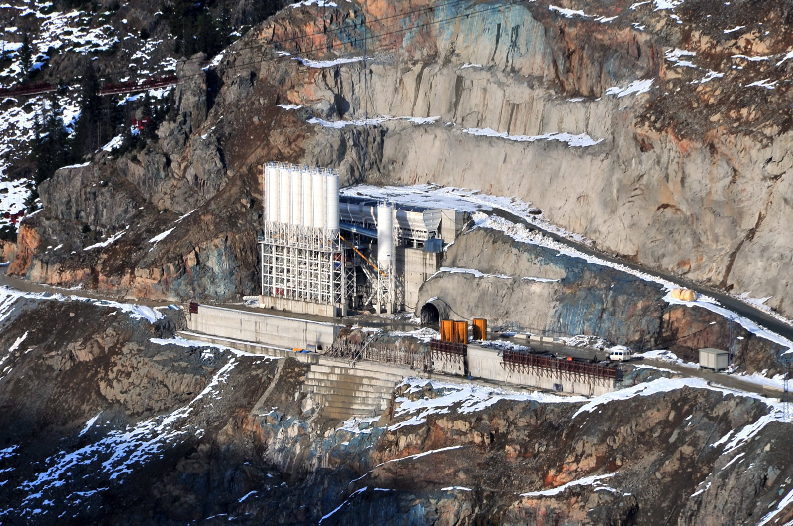 Yaşmaklı Barajı 300m3/s Meka RCC Beton Santrali